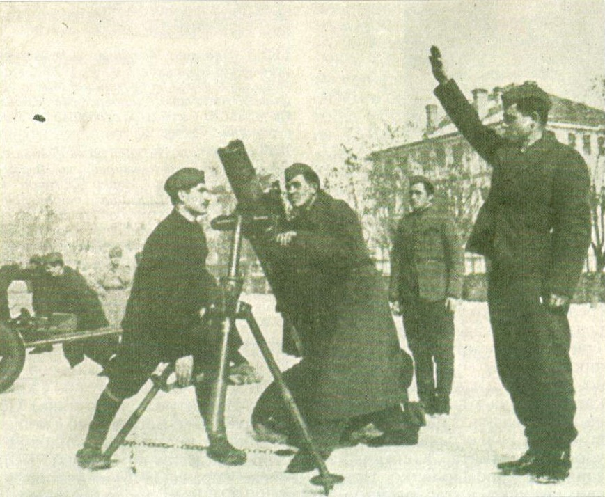 XV Macedonian corpus in the Second World War